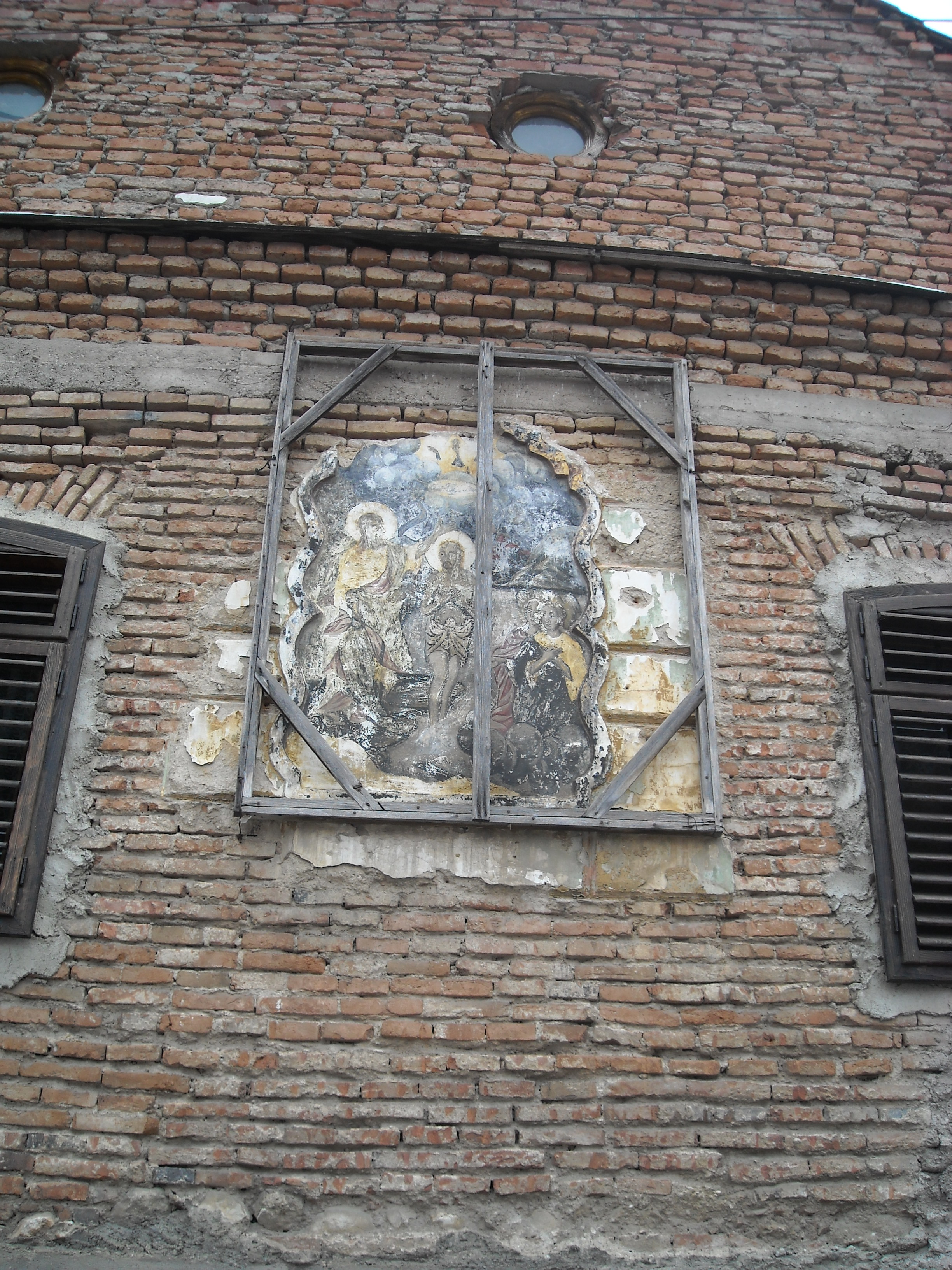 religious mural painting on a house in Pajiște neighbourhood of Șcheii Brașovului